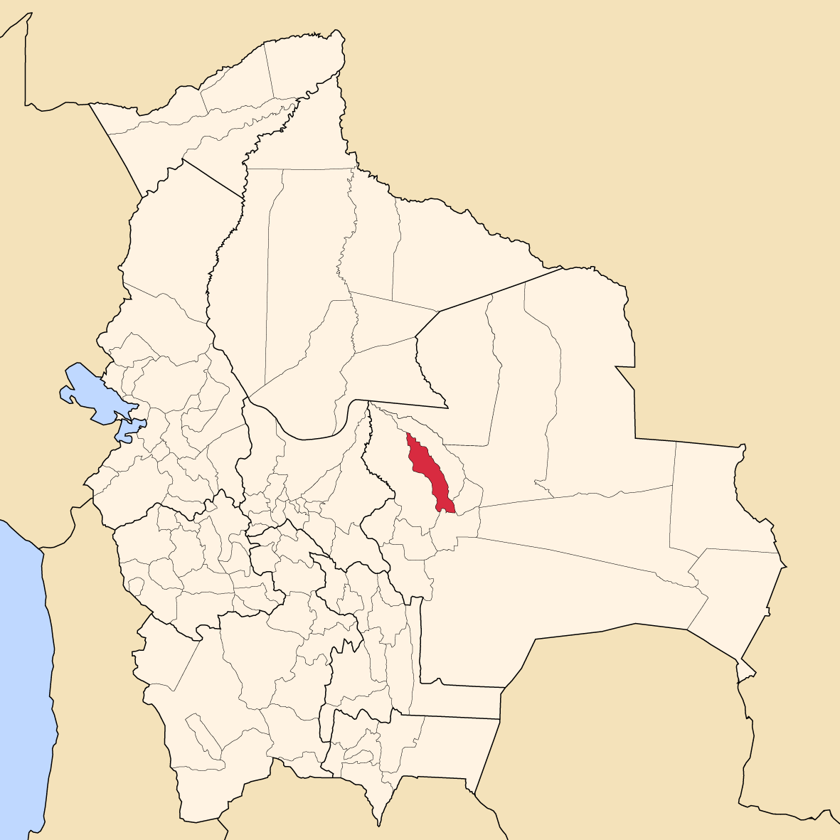 Map of Bolivia showing Sara province, Santa Cruz